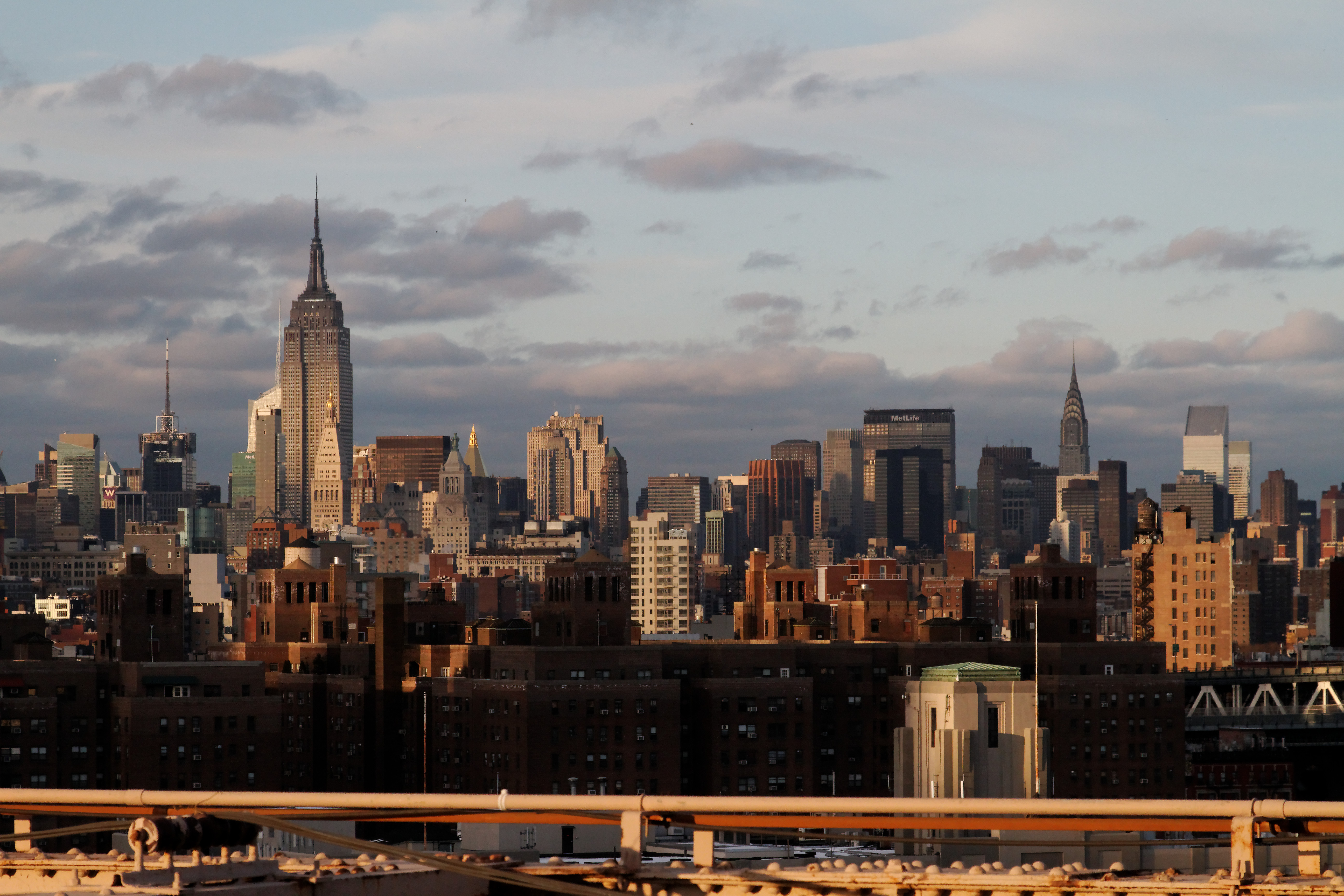 Manhattan skyline from the Brooklyn bridge